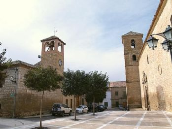 bedededed